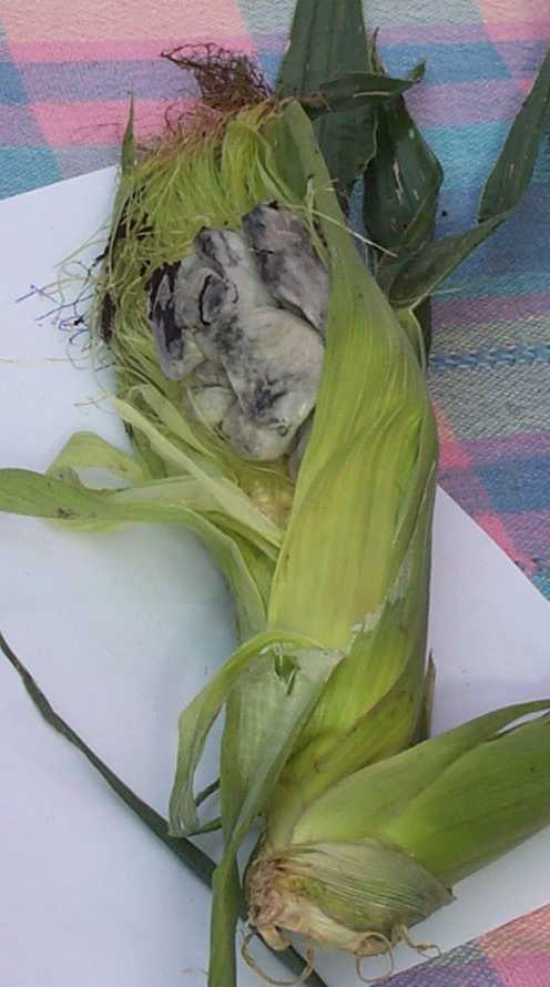 Smut on a corn cob.